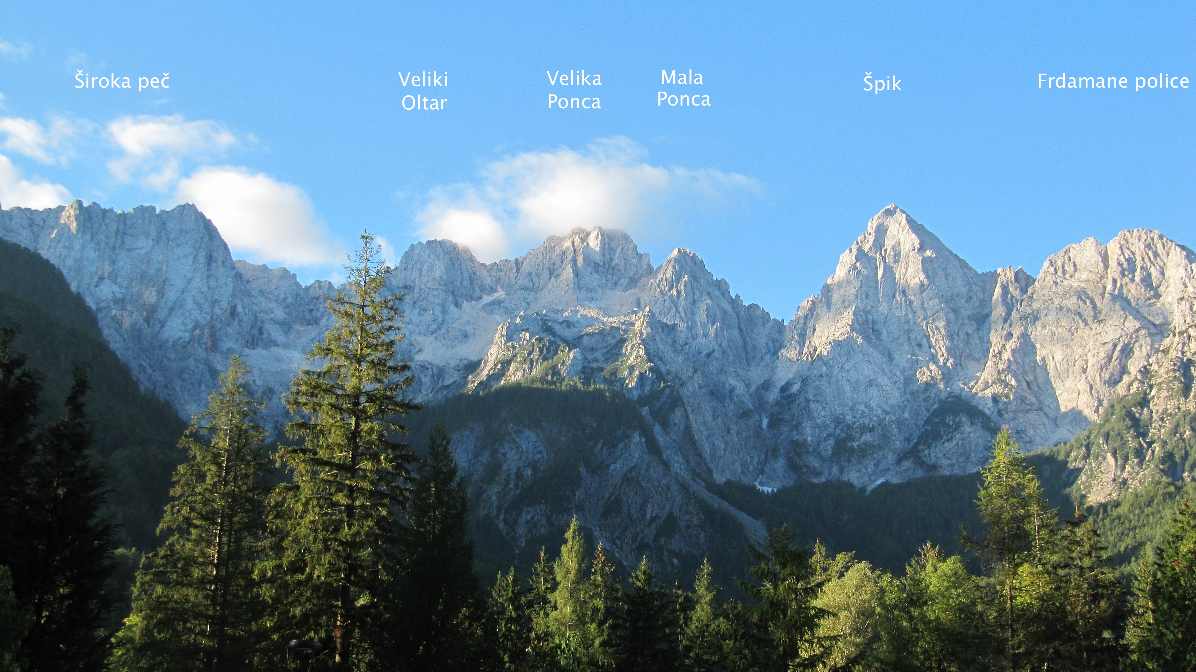 Martuljek mountains (group), Julian Alps, Slovenia